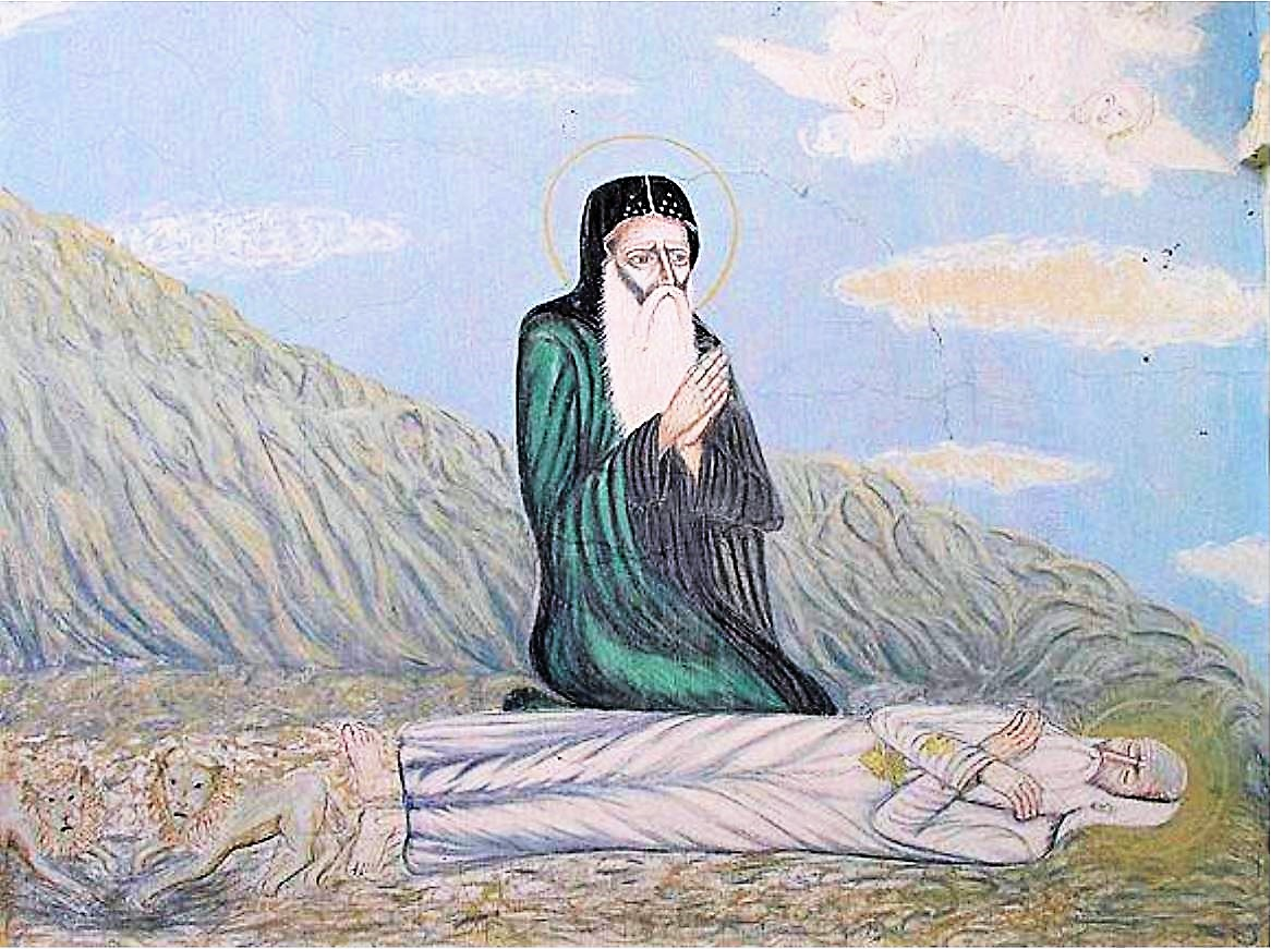 St. Anthony burying St. Paul, fresco from St. Paul monastery (Egypt)